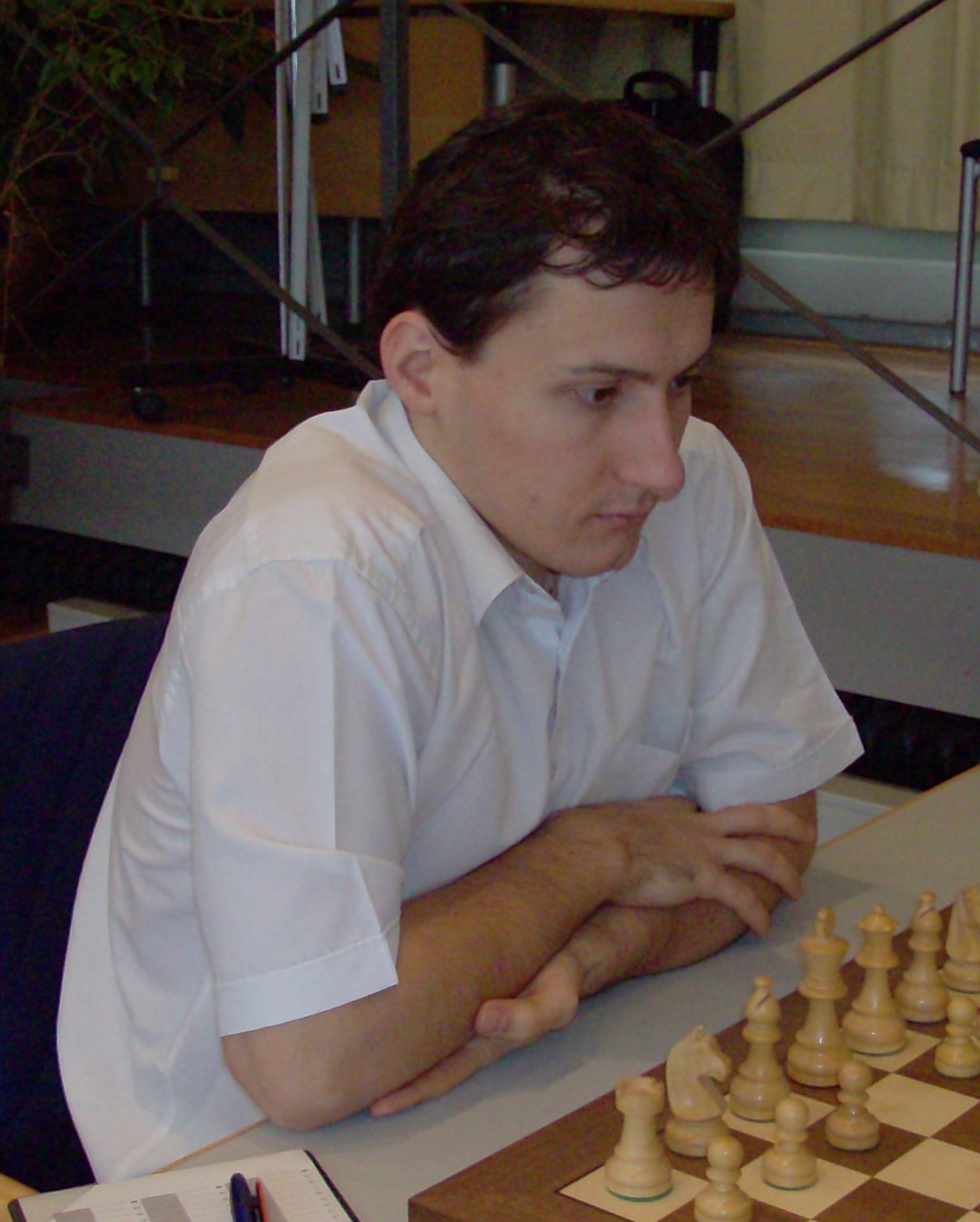 Ferenc Berkes, chess grandmaster from Hungary